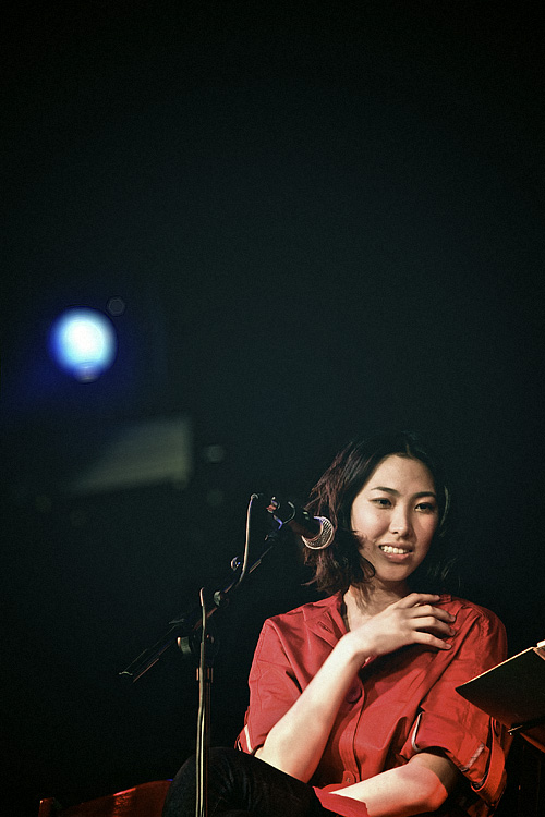 Chinese singer Joanna Wang（Wang Ruolin 王若琳）